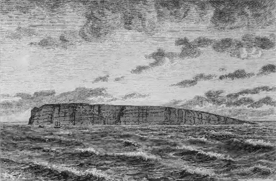 Preobrazheniya Island in the Khatanga Gulf as seen from Nordenskiölds Vega expedition in 1878.